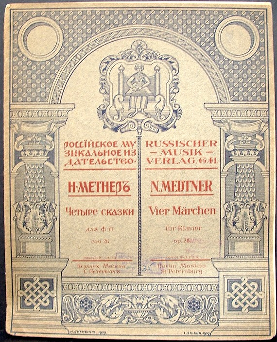 Bilibin, Ivan) Medtner, Nikolai Sheet Music CHETYRE SKAZKI (Op. 26) Berlin/Moscow/St. Petersburg: RMI, [c. 1909] Music by Nikolay Metner. Cover by Jean Bilibine. Folio (13-1/4" x 10-1/2") softcover.